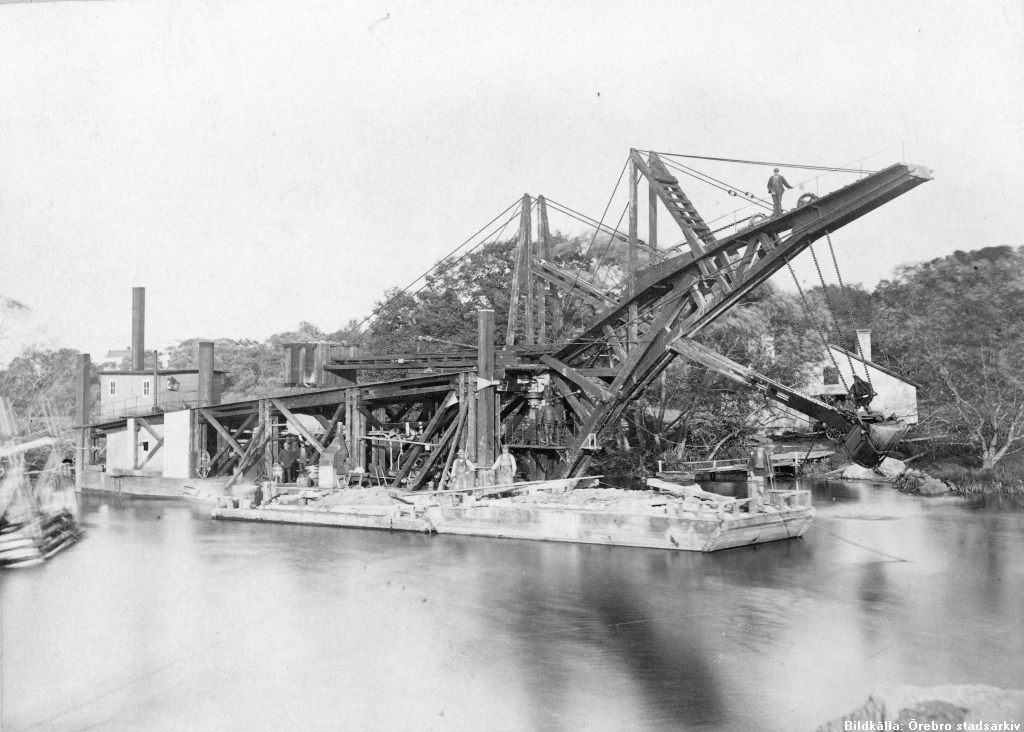 The mudder machine "Enhörningen" used when lowering the surface of lake Hjälmaren